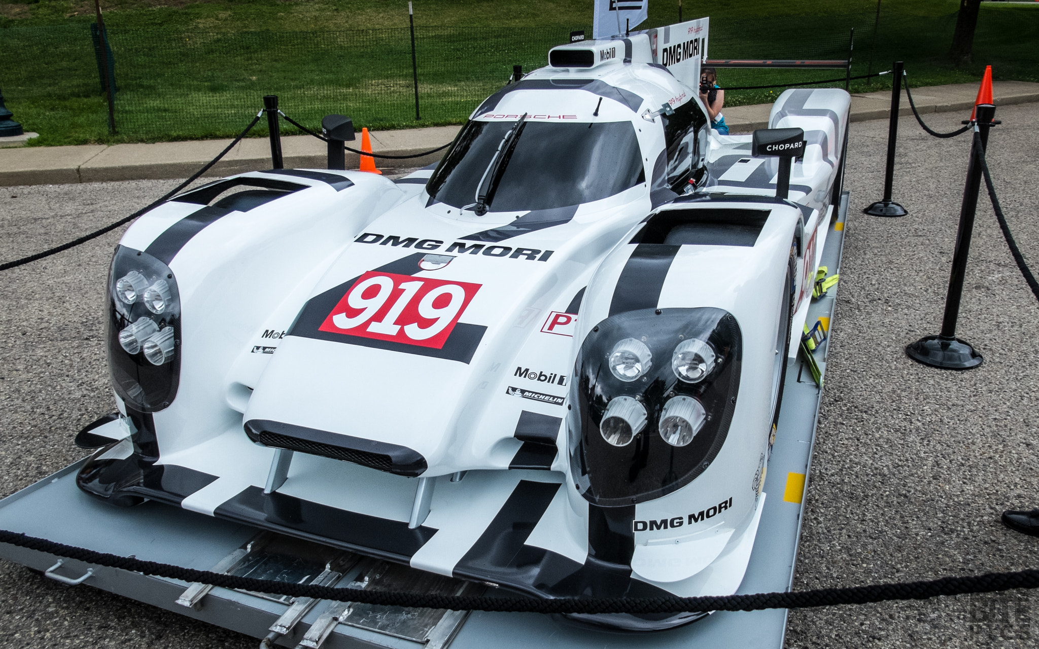 500px provided description: Taken at the 2014 Concours d'Elegance in Cincinnatti, OH. [#Cars ,#Automobiles ,#Motorsports ,#Autos ,#Concours]